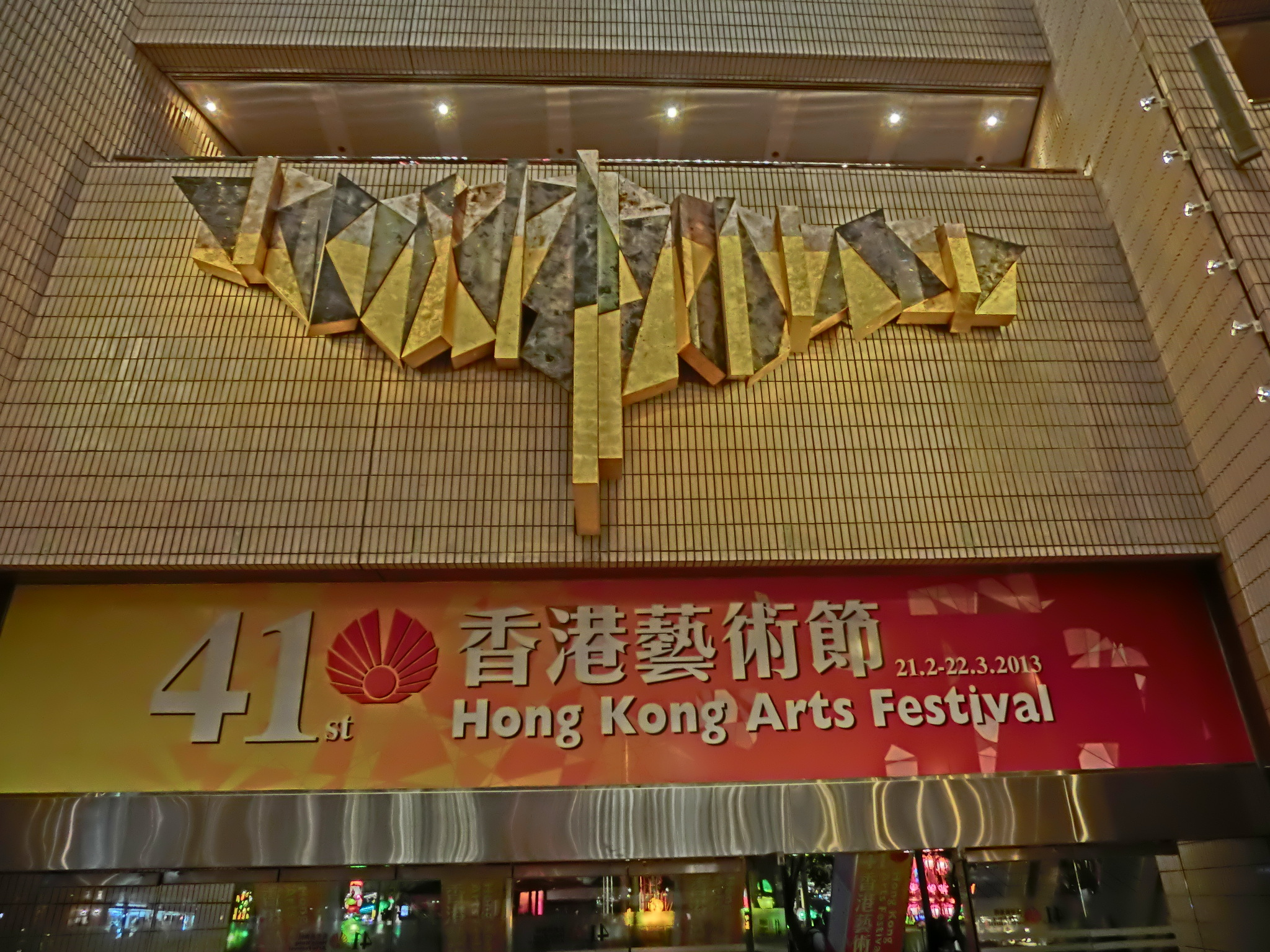 Opening ceremonyCocktail party of 2013 Hong Kong Arts Festival, 第41屆zh:香港藝術節2013年2月21日開幕典禮zh:酒會